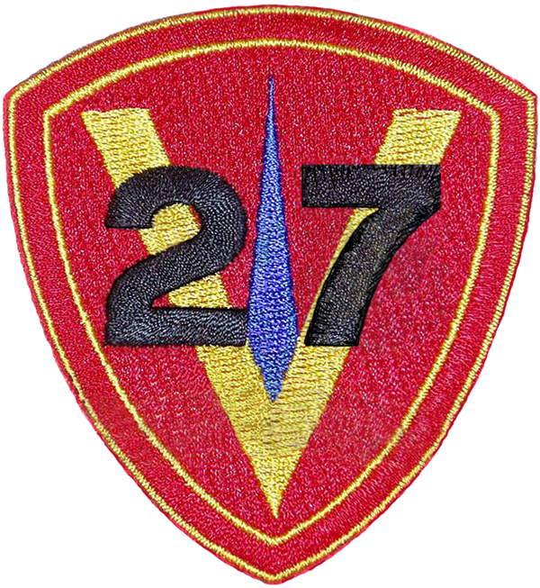 The insignia of the United States Marine Corps 27th Marines.